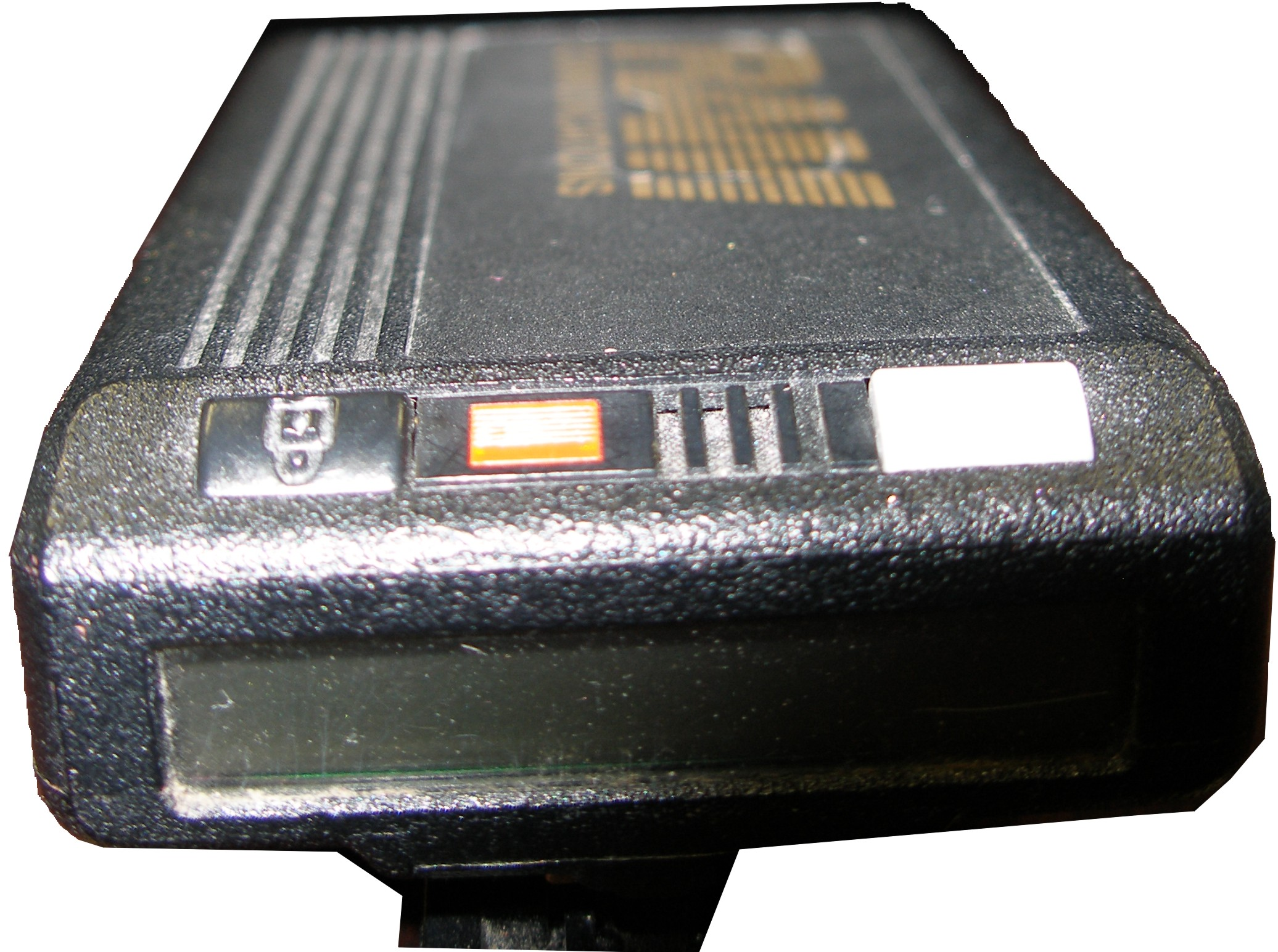 Numeric Pager used to receive numeric pages. This model used by RAM Paging of Michigan in the 1980's and 1990's.